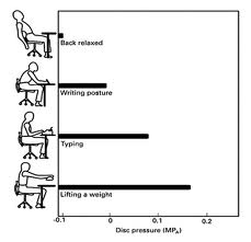 Disc pressure measurement